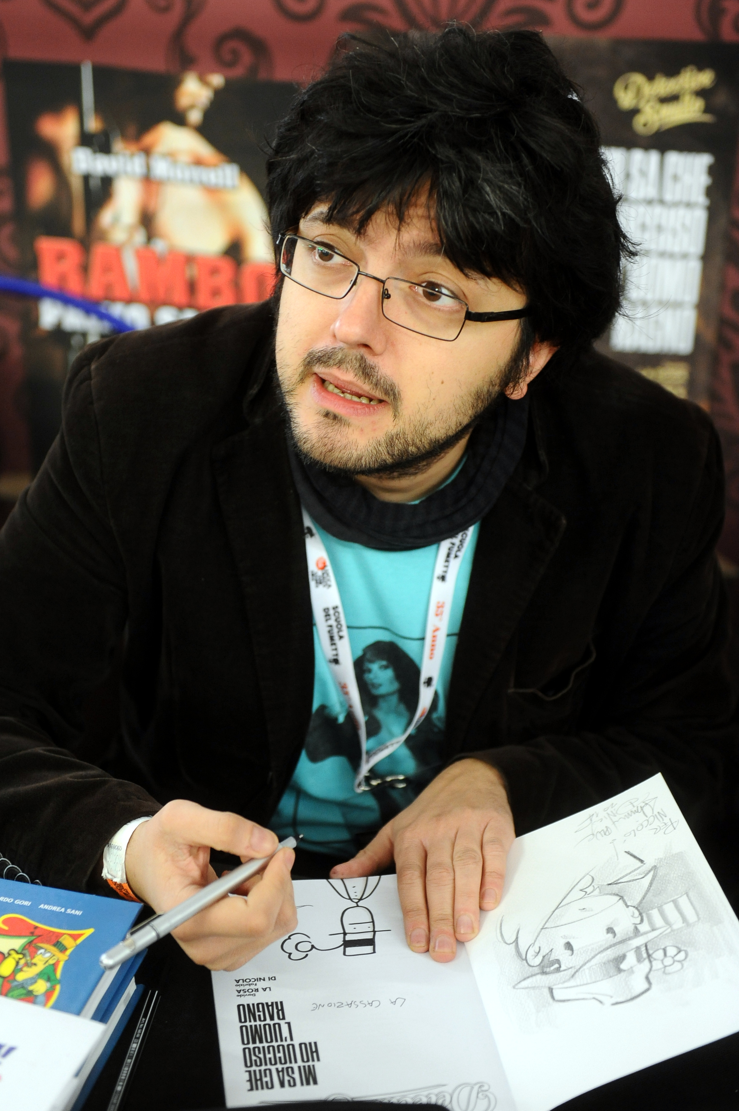 Davide La Rosa at Lucca Comics & Games 2014.